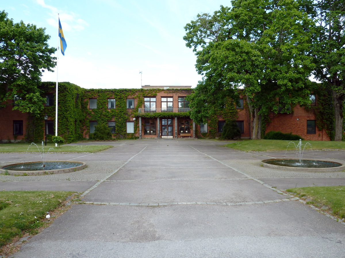 Main entrance to the school Bildningscentrum Facetten in Åtvidaberg.